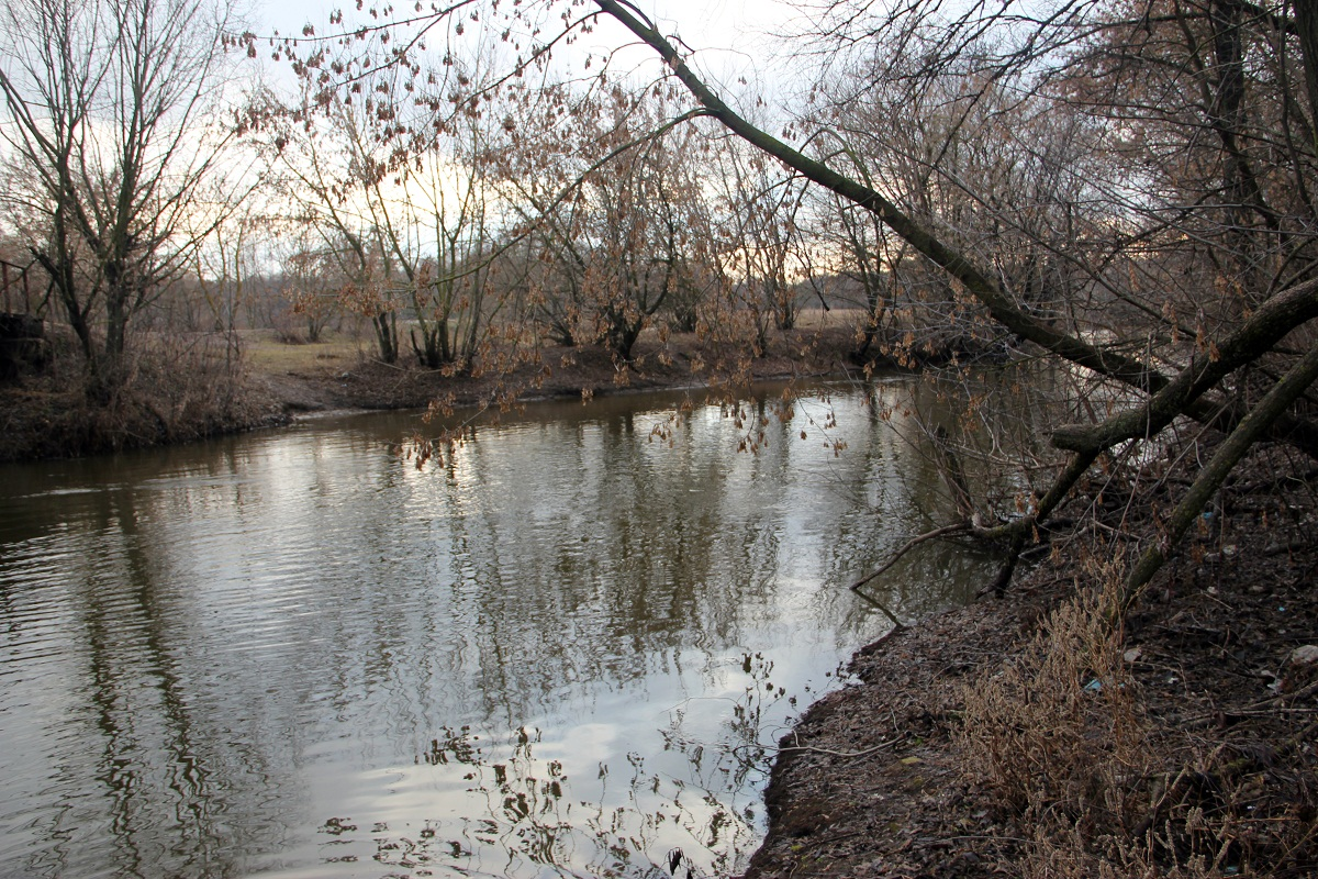 The Ubed' River